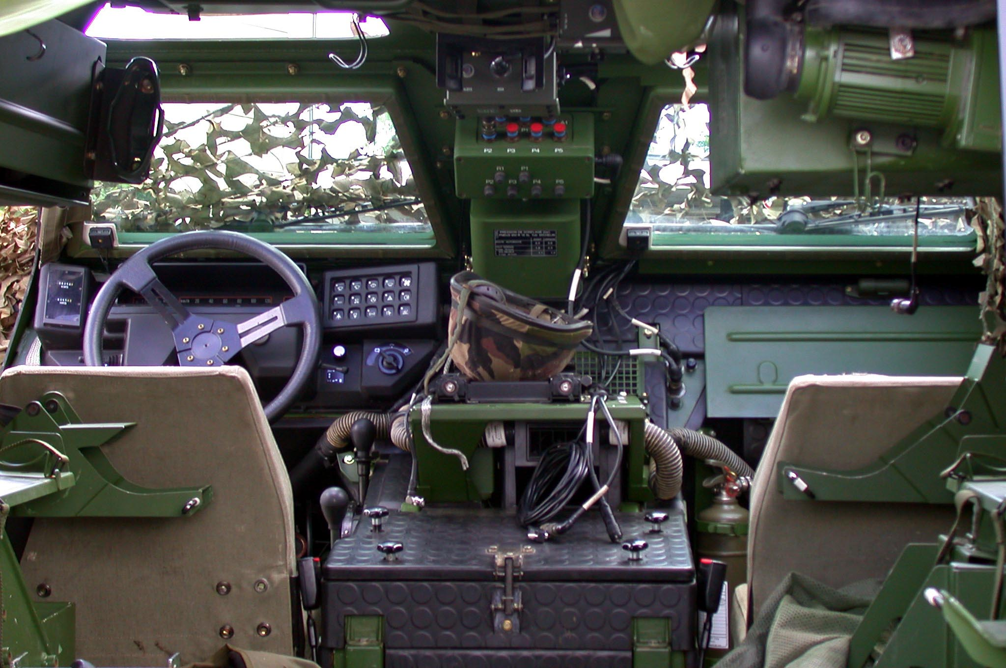 VBL (light armoured Vehicle); Guer, Ille-et-Vilaine.